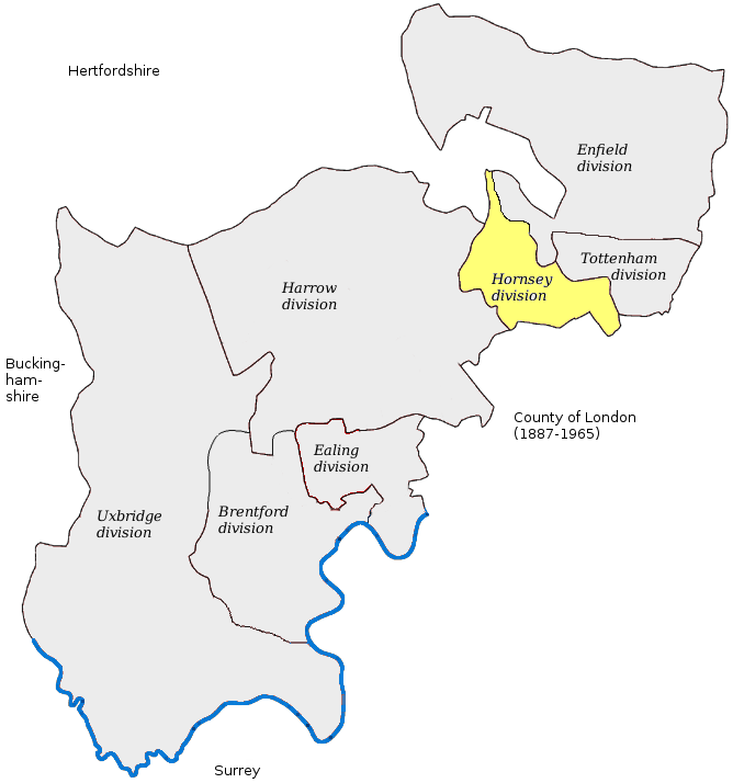 UK House of Commons seat Hornsey, created 1885 before its 1918 reduction to its southwestern core (removal of Finchley).